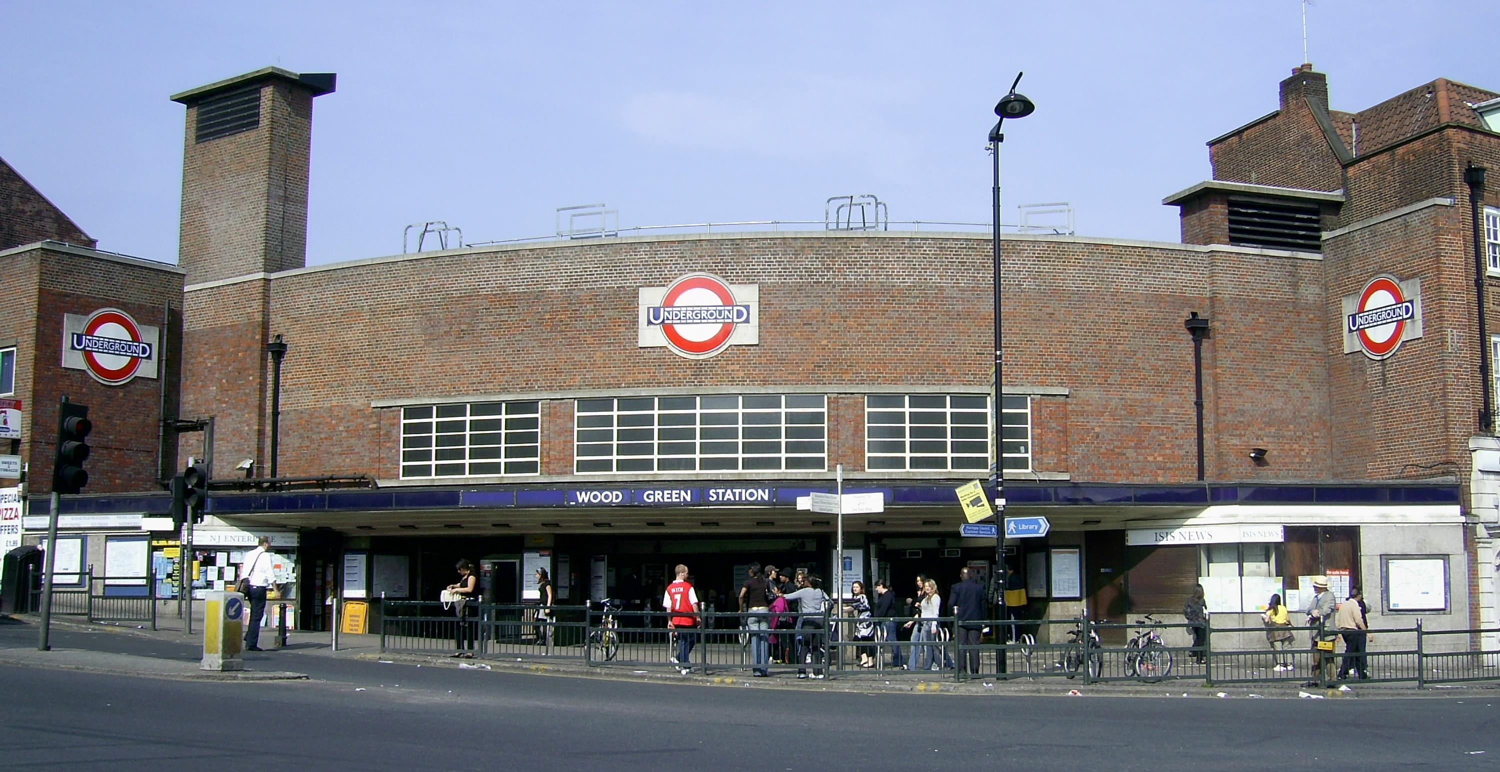 Photograph of Wood Green tube station, London, taken by Nick Cooper 14 April 2007.